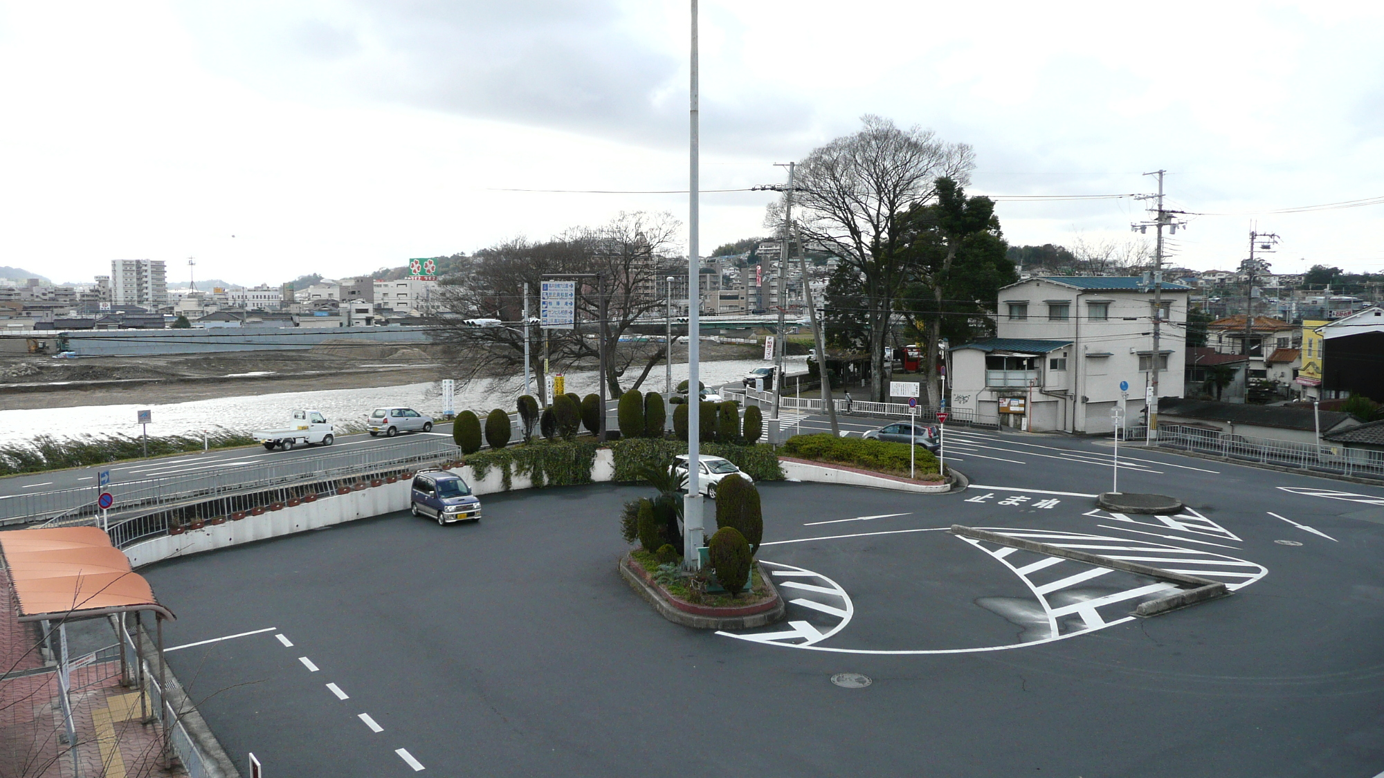 West Japan Railway,Kansai Mein Line,Takaida Station south square. / 関西本線高井田駅南口広場